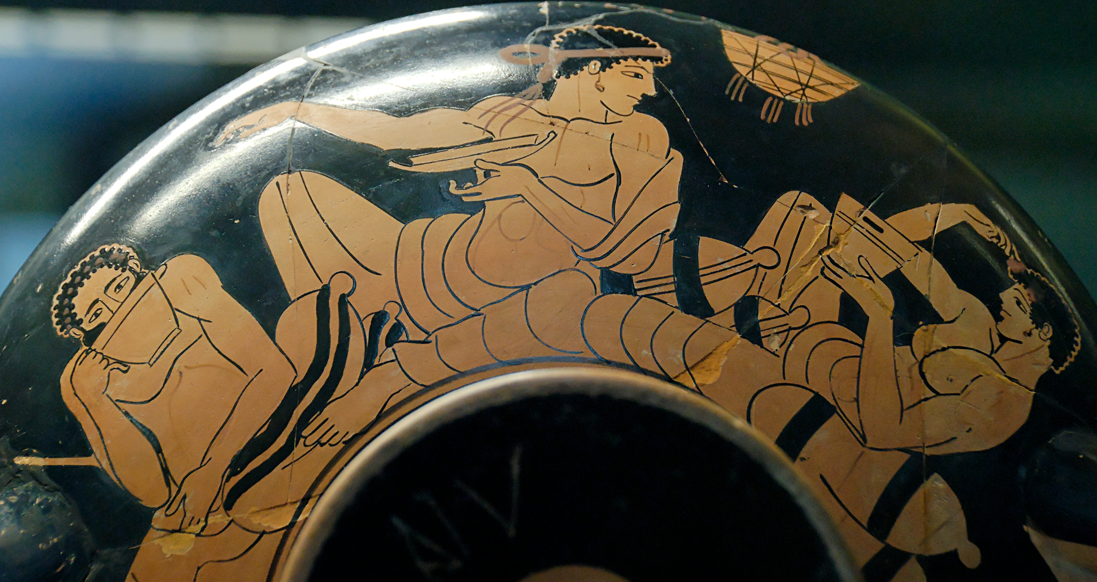 Banquet scene: youth holding a kylix (shallow cup), surrounded by two young men holding skyphoi. Attic red-figure cup, ca. 490-480 BC.